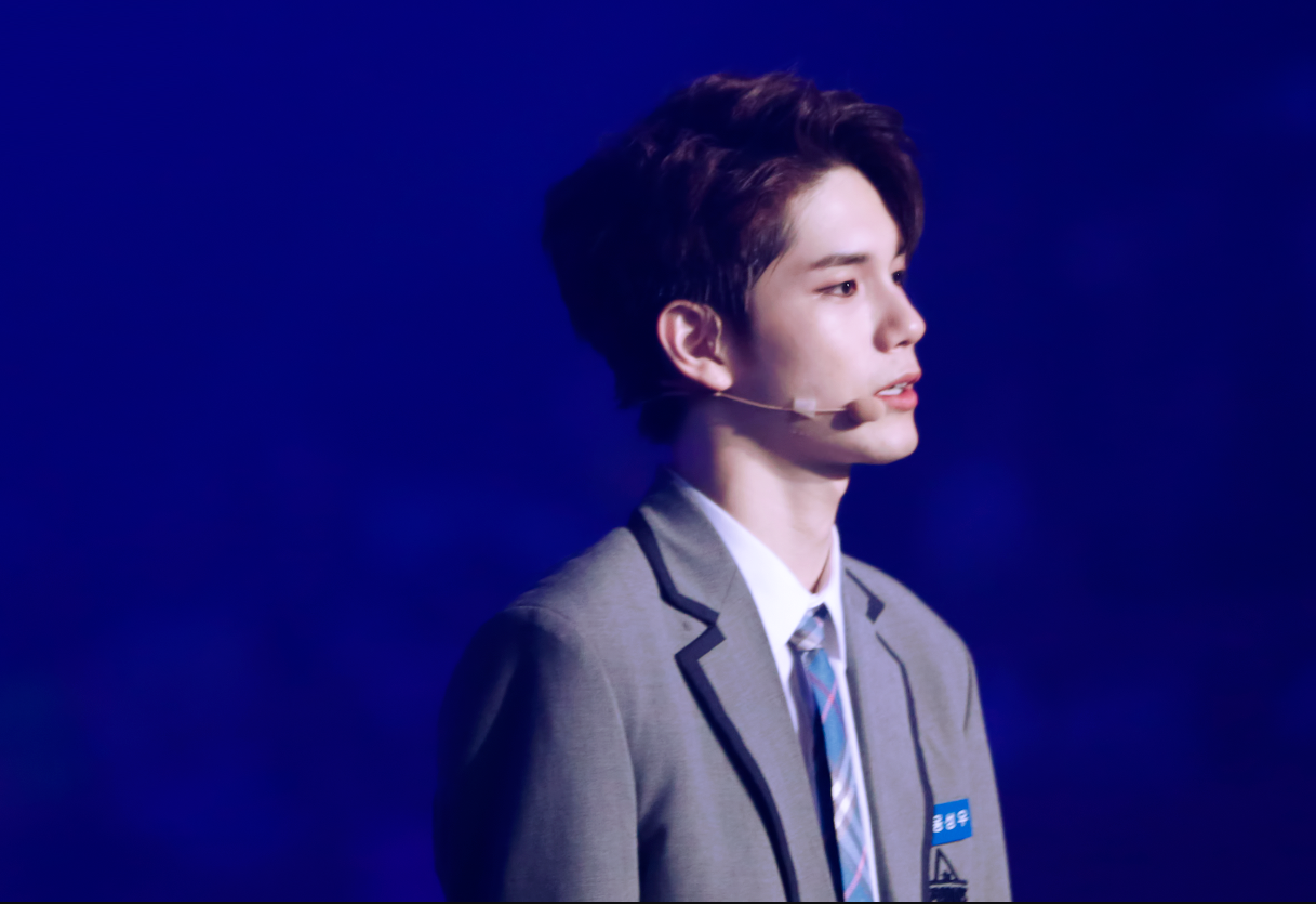 Ong Seong Wu at Produce101 S2 Final Concert (170701)